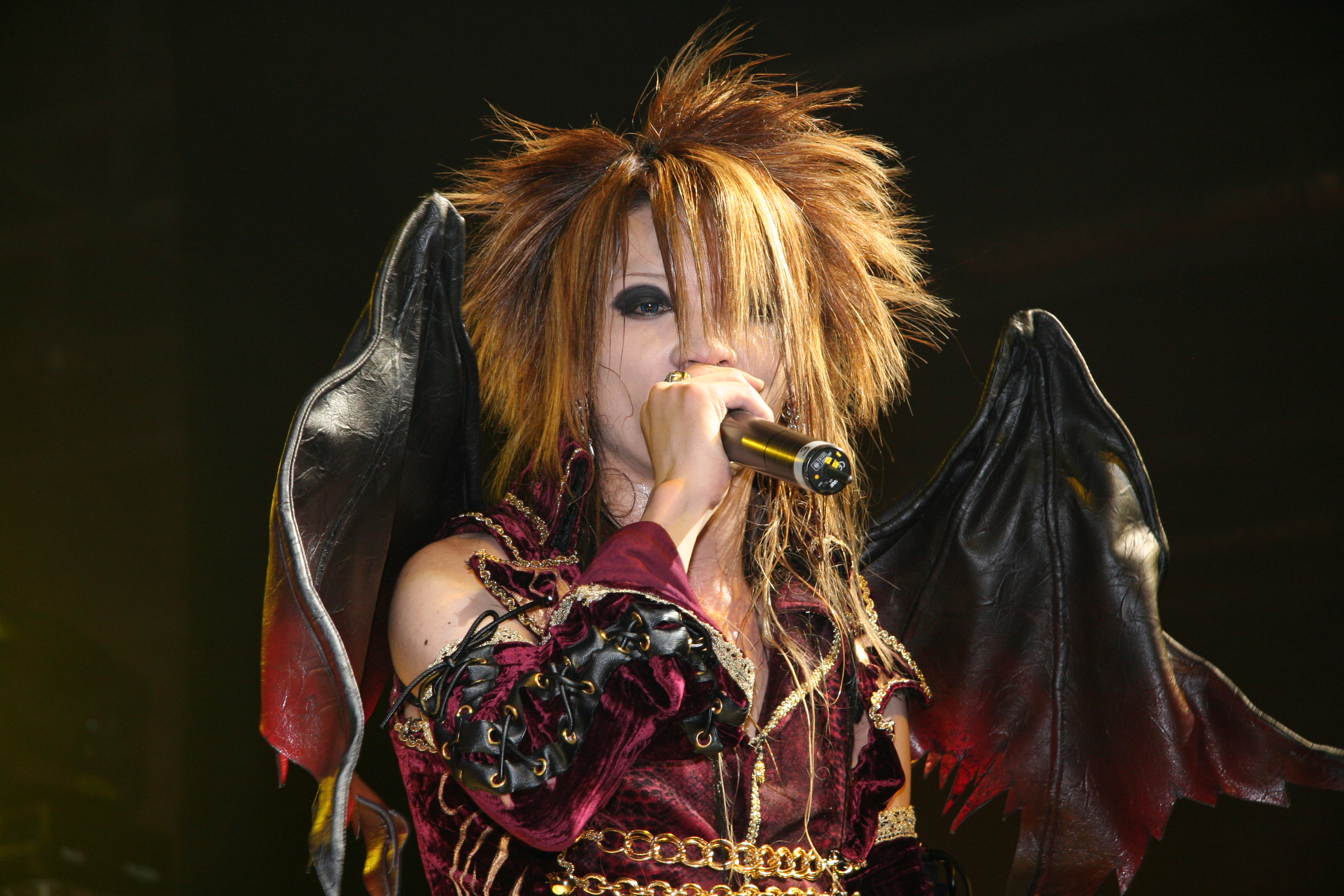 Dio - Distraught Overlord live at Japan Expo 2007 (Paris, France).